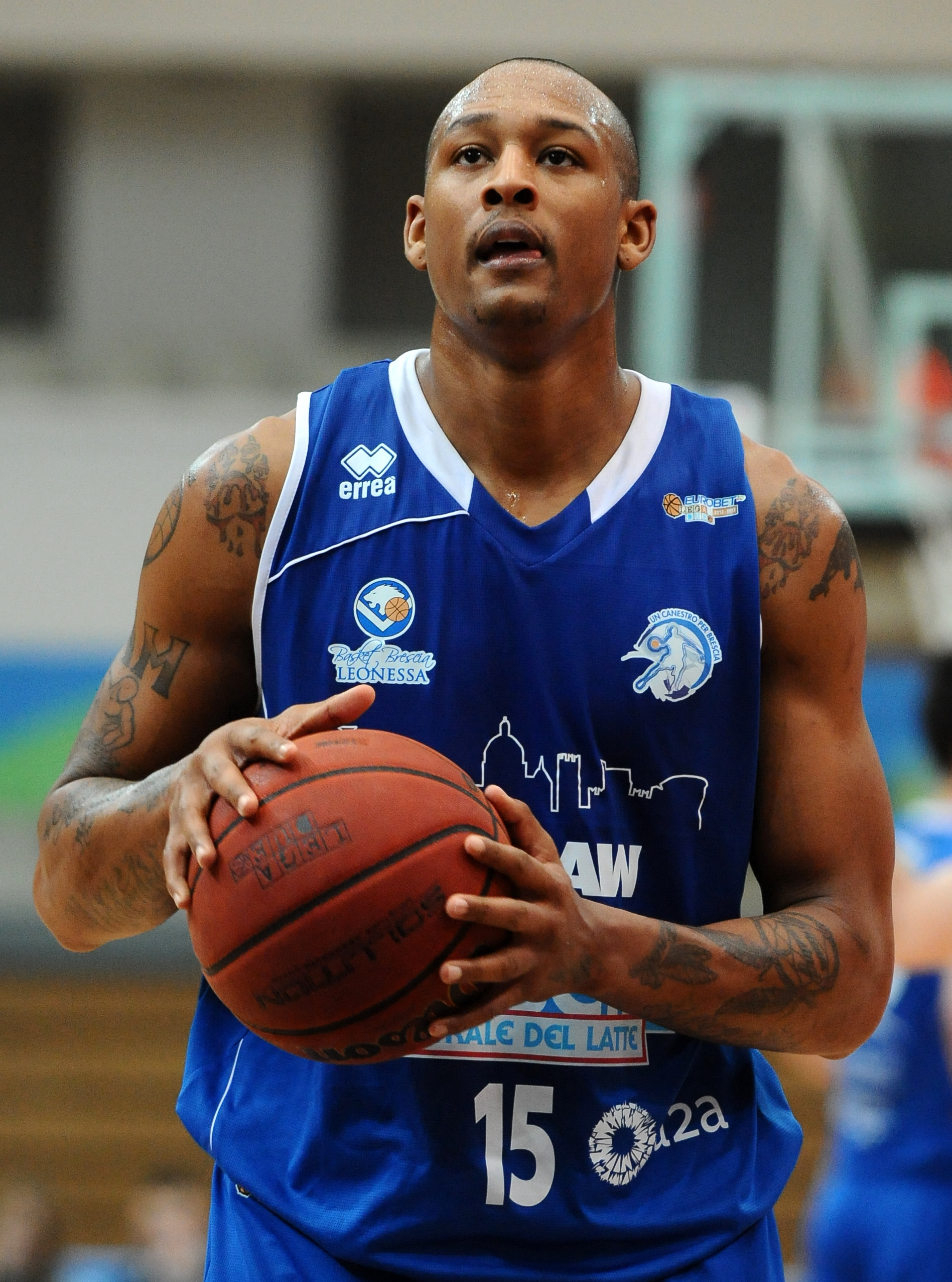 J.R. Giddens during a match against Aquila Basket Trento at the PalaTrento.